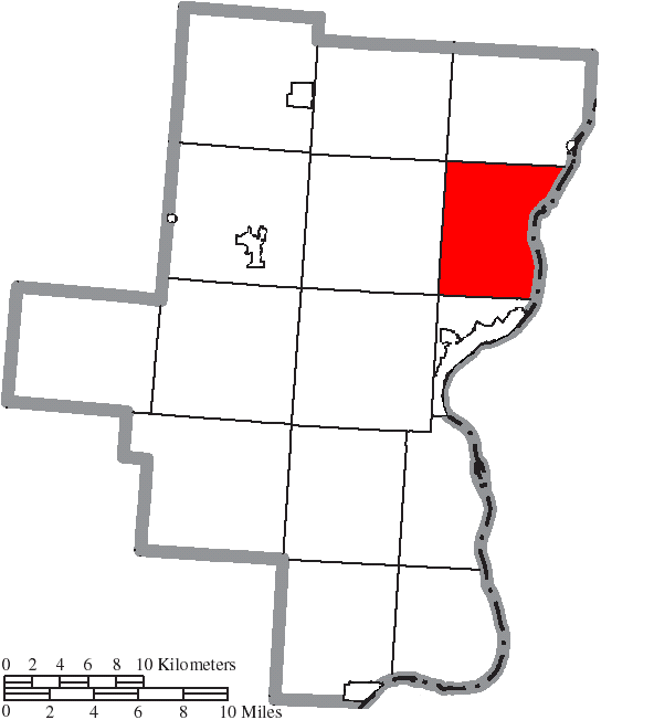 Map of the municipal and township boundaries of Gallia County, Ohio, United States, as of the 2000 census, with the location of Addison Township highlighted. Township borders are shown only in unincorporated areas in order to differentiate incorporated and unincorporated areas more clearly.